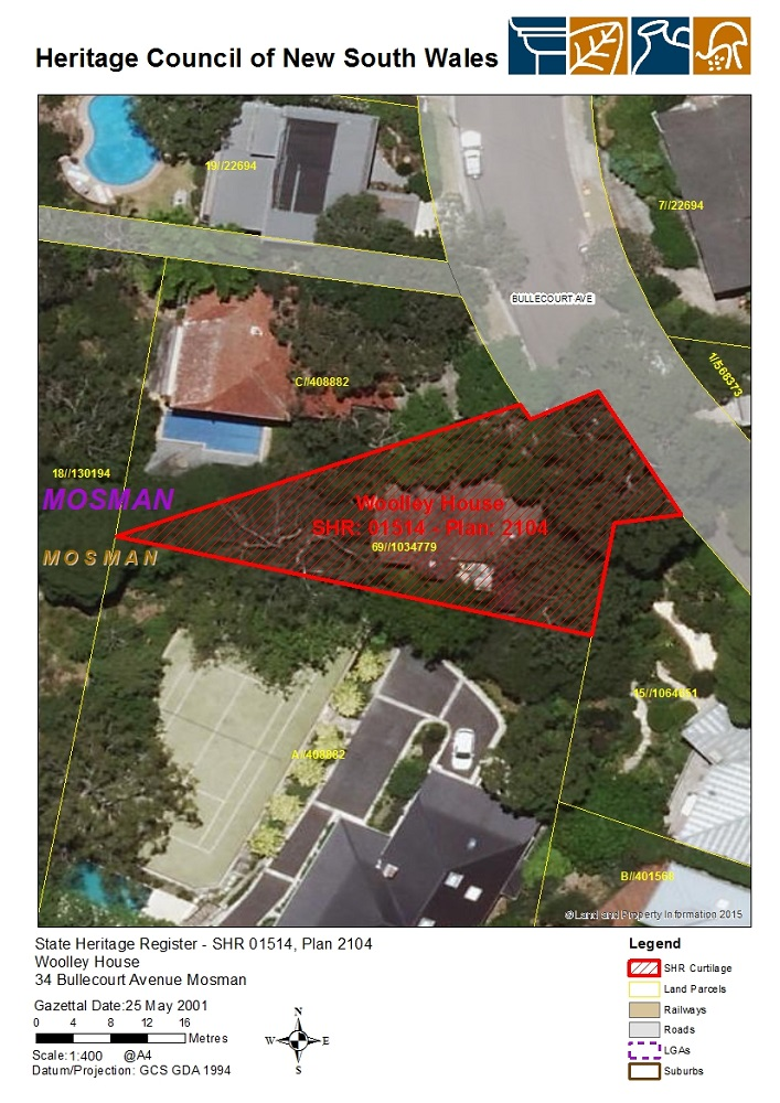 Woolley House: SHR Plan 2104